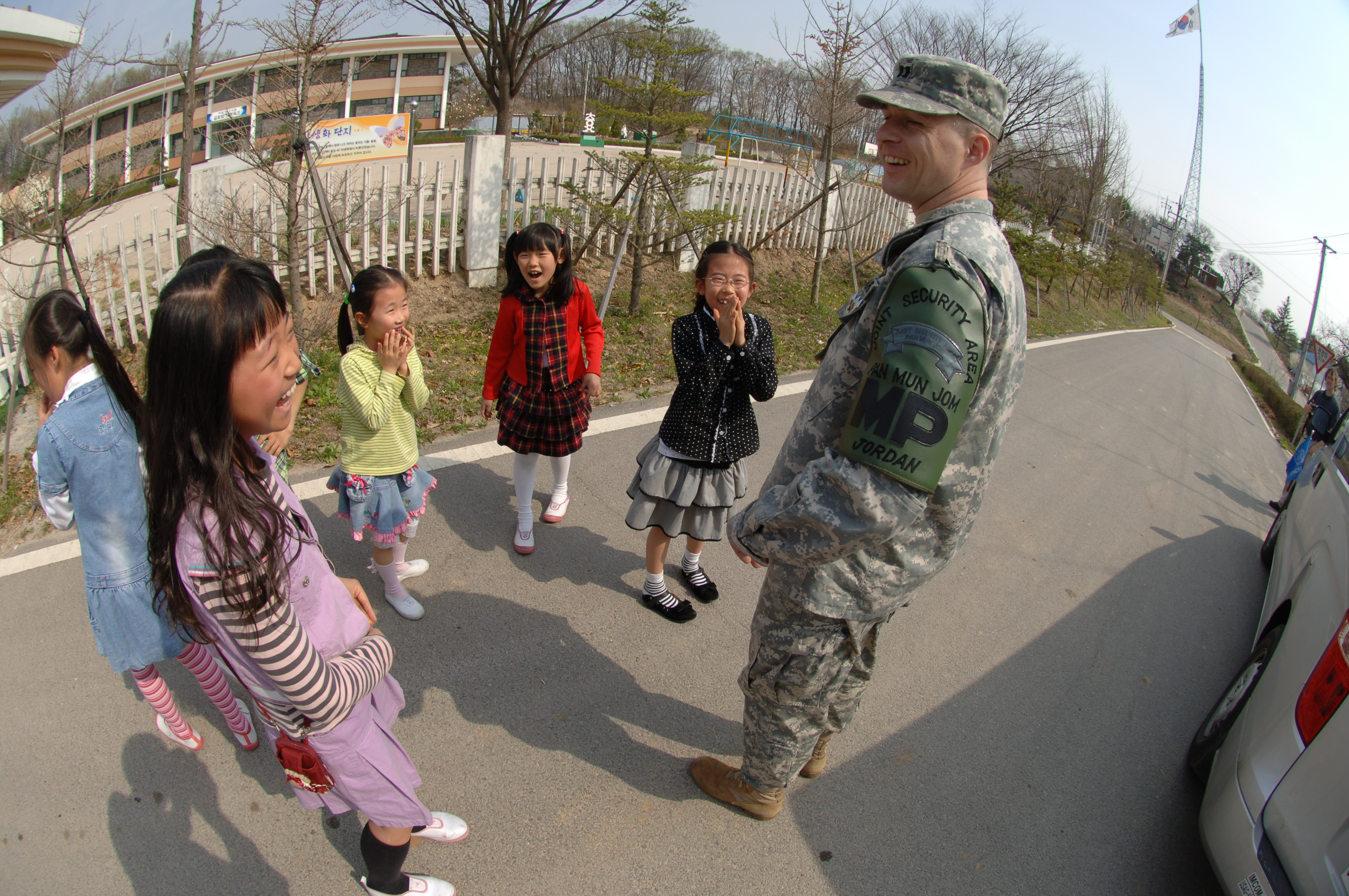 US Soldiers interacting with children in the DMZ as part of the USFK Good Neighbor program.